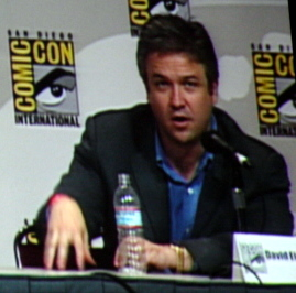 Ron Moore and David Eick, Battlestar Galactica. Comic-Con: Saturday, July 28th.